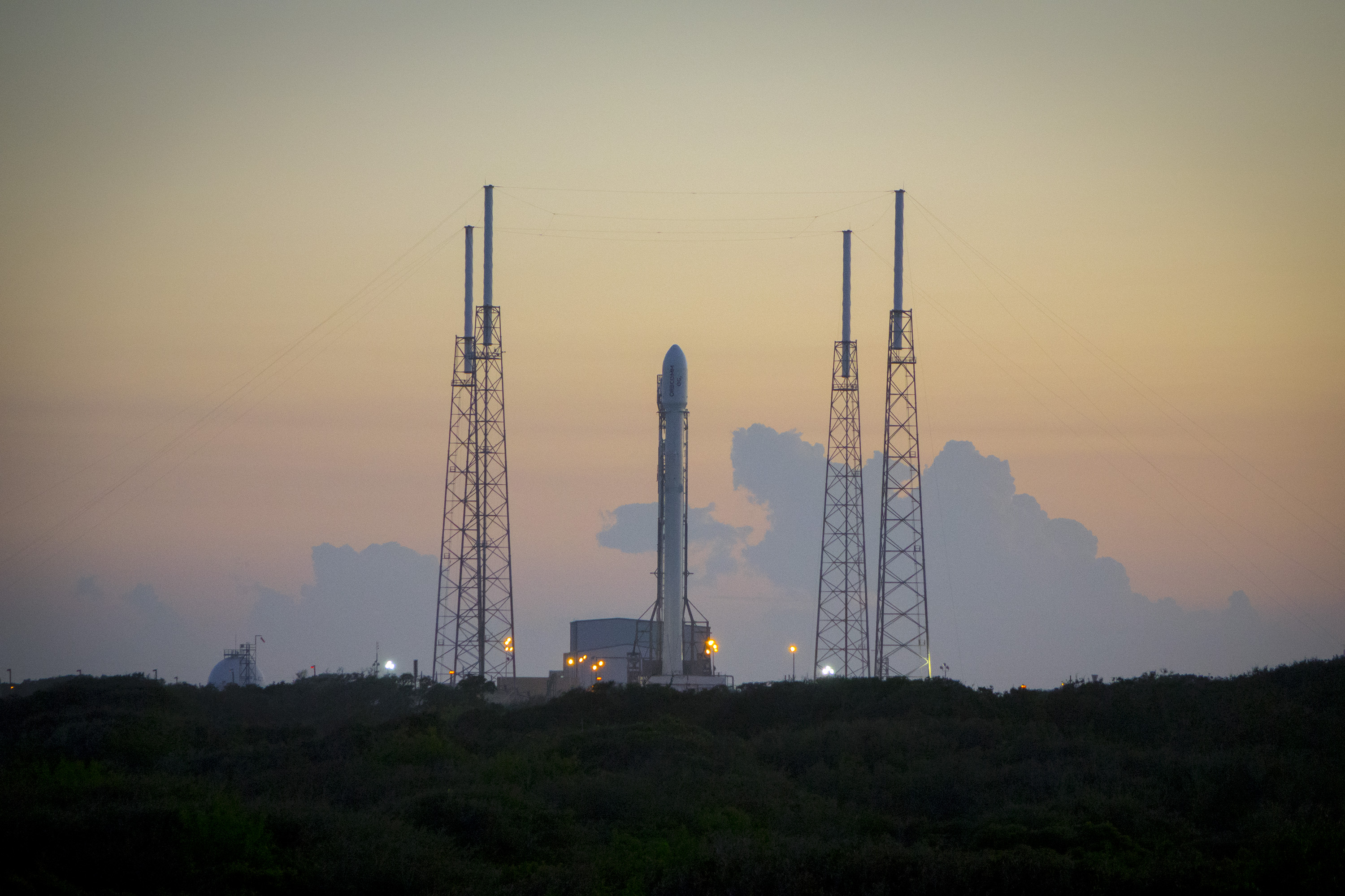 SpaceX is currently aiming for a December 20th launch of the Falcon 9 rocket, carrying 11 satellites for ORBCOMM. The launch is part of ORBCOMM's second and final OG2 Mission and will lift off from SpaceX's launch pad at Cape Canaveral Air Force Station in Florida. This mission also marks the first time SpaceX will attempt to land the first stage of the Falcon 9 rocket on land. The landing of the first stage is a secondary test objective. The launch webcast is targeted to begin at 5:05pm PT with liftoff at 5:29pm PT. The launch webcast can be viewed at For updates, visit and